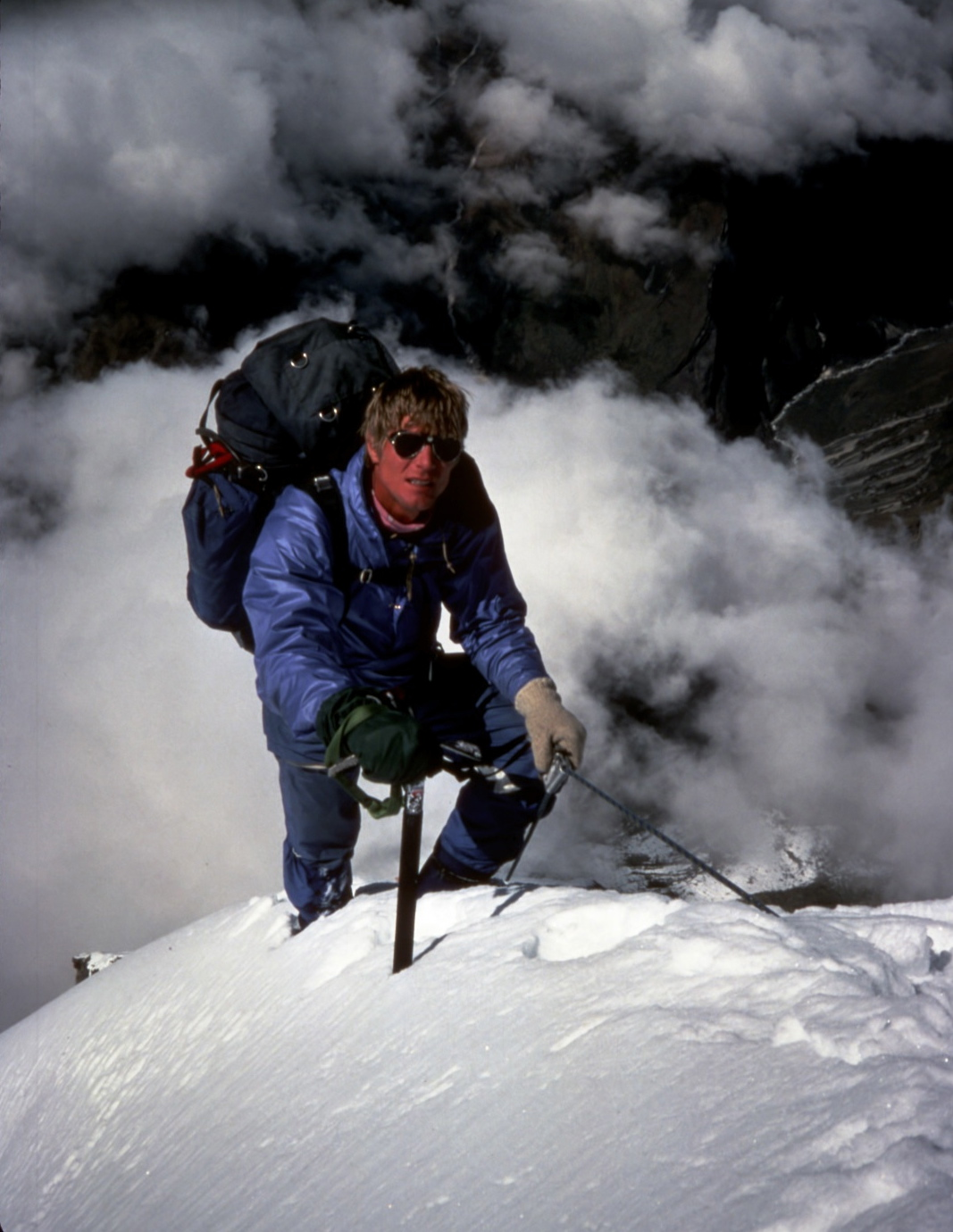 Scott Fischer on the Annapurna Fang (Varaha Shikhar) in 1984 (cropped).